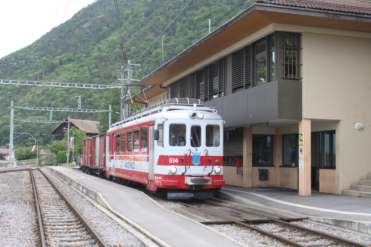 TPC-AOMC BDeh 4/4 514 at Ollon train station.